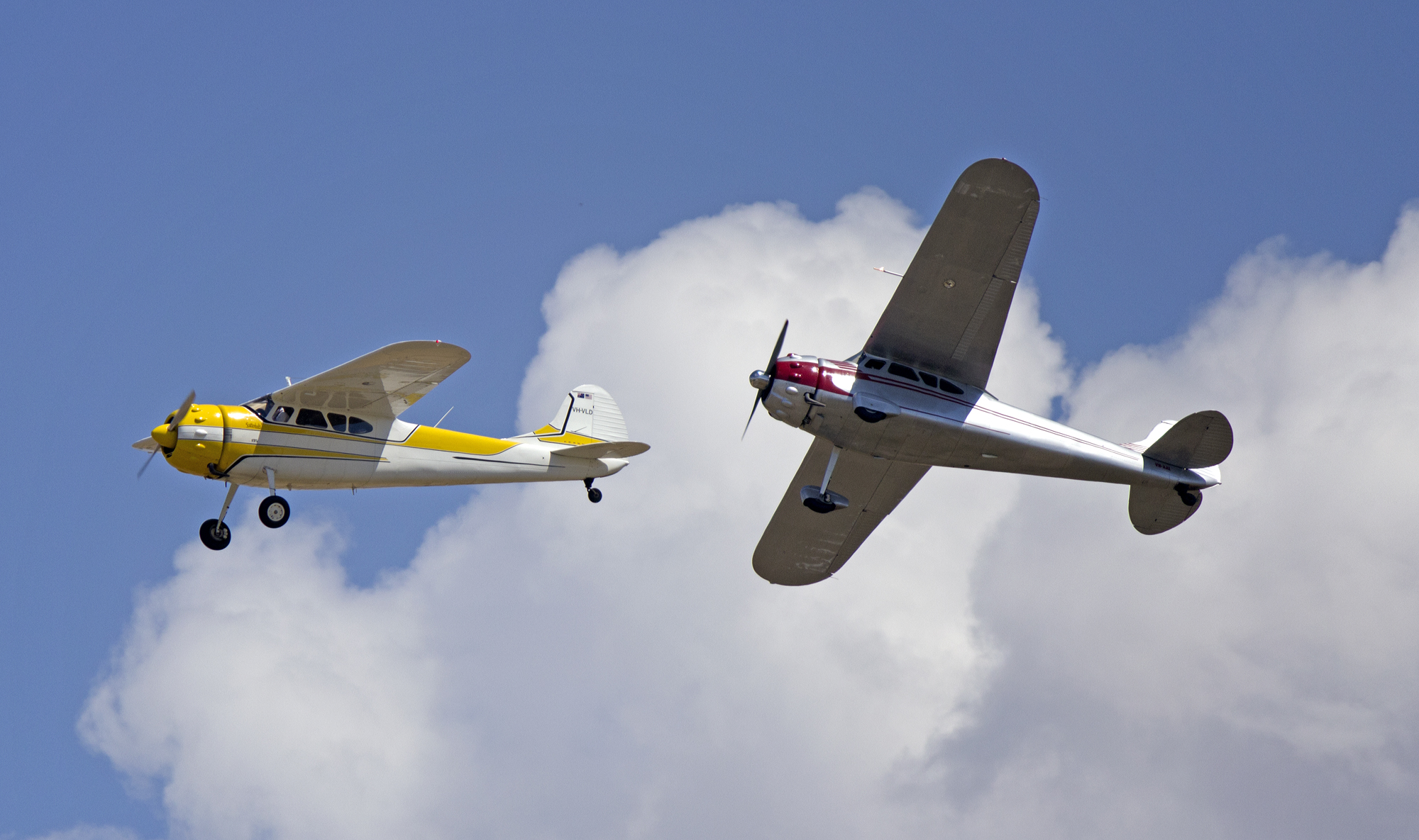 1953 Cessna 195B (VH-VLD) and 1948 Cessna 190 (VH-AAL) at Temora Airport for Temora Aviation Museum's inaugural Warbirds Downunder Airshow.